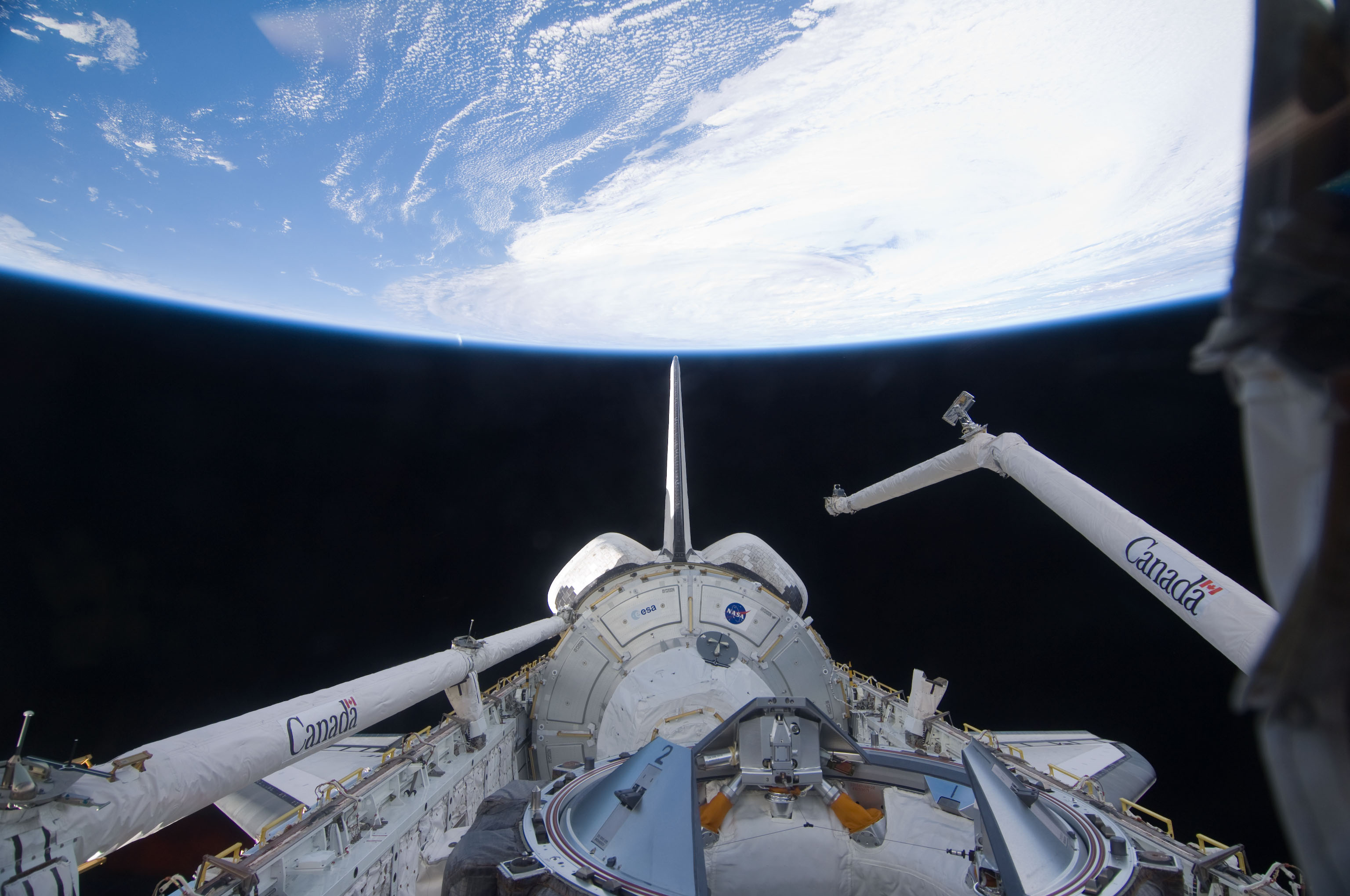 Backdropped by Earth's horizon and the blackness of space, the Tranquility node in space shuttle Endeavour's payload bay, vertical stabilizer, orbital maneuvering system (OMS) pods, docking mechanism and Remote Manipulator System/Orbiter Boom Sensor System (RMS/OBSS) are featured in this image photographed by an STS-130 crew member from an aft flight deck window.